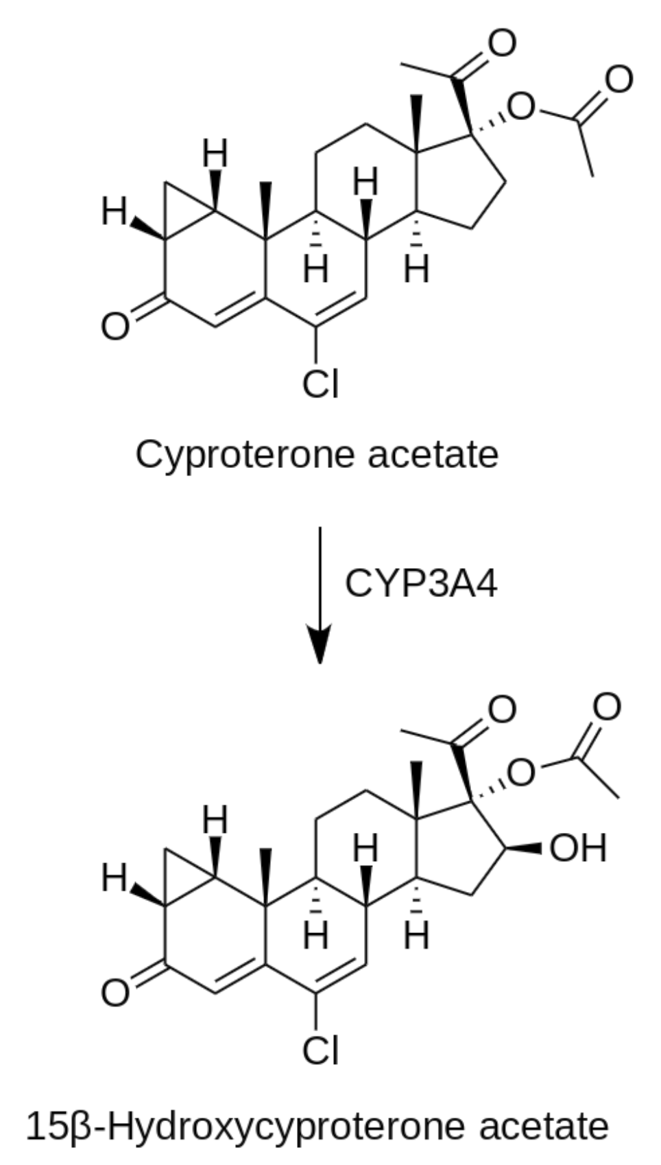 Metabolic pathways of cyproterone acetate in humans. "CPA is almost completely metabolized via the cytochrome P450 isoenzyme CYP3A4, and its main metabolite is 15β-OHCPA." Source: (April 2018). "Current understanding on pharmacokinetics, clinical efficacy and safety of progestins for treating pain associated to endometriosis". Expert Opin Drug Metab Toxicol 14 (4): 399–415. PMID 29617576. "The major metabolic steps are hydroxylation and deacetylation, while the D4-double bond is preserved. The antiandrogenic activity of 15β-hydroxy-CPA is similar to that of CPA, but the progestogenic efficacy is only 10% of that of CPA [17]." Source: Kuhl H (2011). "Pharmacology of Progestogens" (PDF). J Reproduktionsmed Endokrinol 8 (1): 157–177. "[CPA is metabolised via various degradation pathways, including via hydroxylation and conjugation steps. The major metabolite in serum is 15β-hydroxy-CPA.]" Source: (2015). "Hirsutismus – Medikamentöse Therapie Gemeinsame Stellungnahme der Deutschen Gesellschaft für Gynäkologische Endokrinologie und Fortpflanzungsmedizin e.V. und des Berufsverbands der Frauenärzte e.V.". Journal für Reproduktionsmedizin und Endokrinologie 12 (3): 102-149. ISSN 1810-2107.